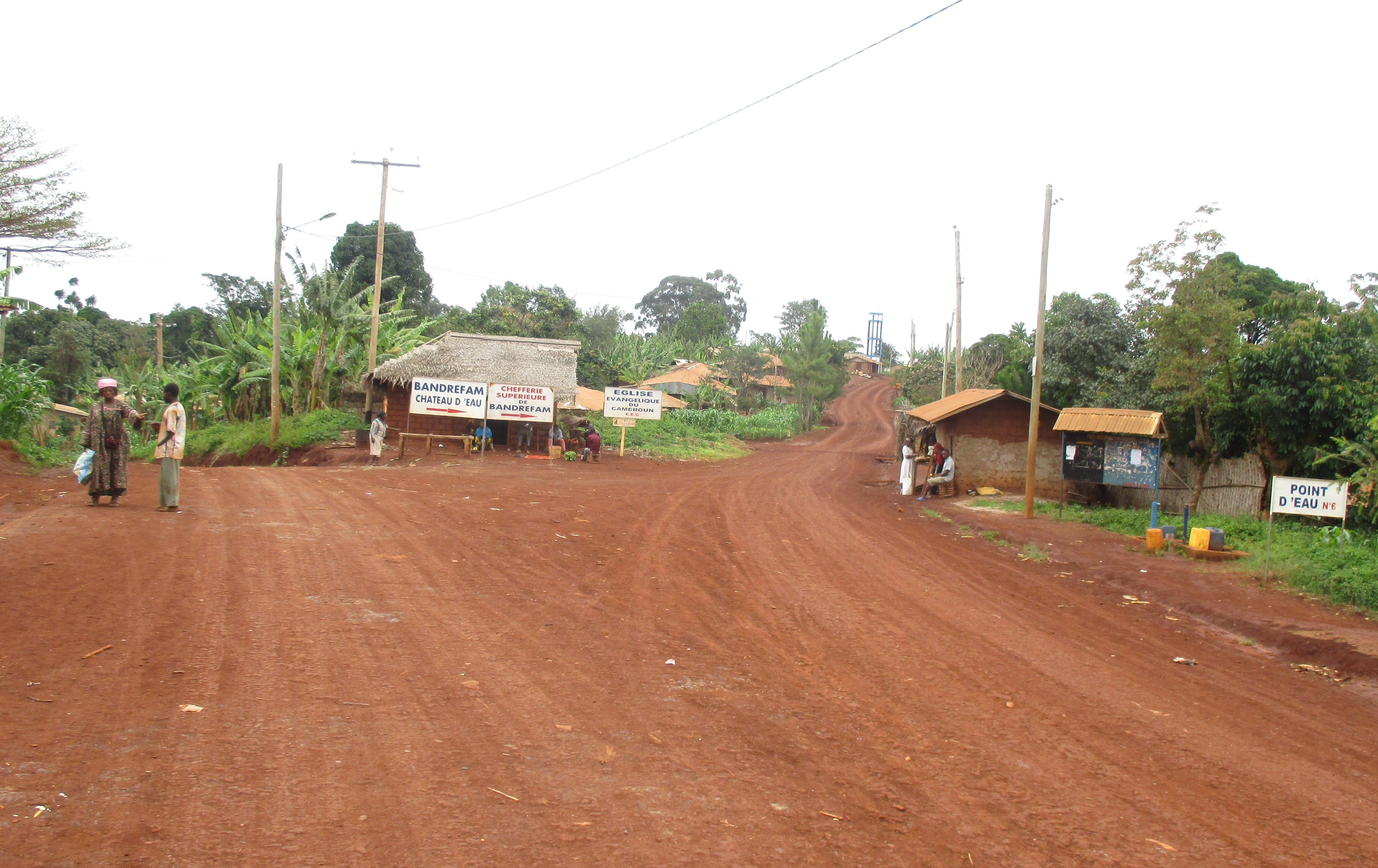 Bandrefam, Center